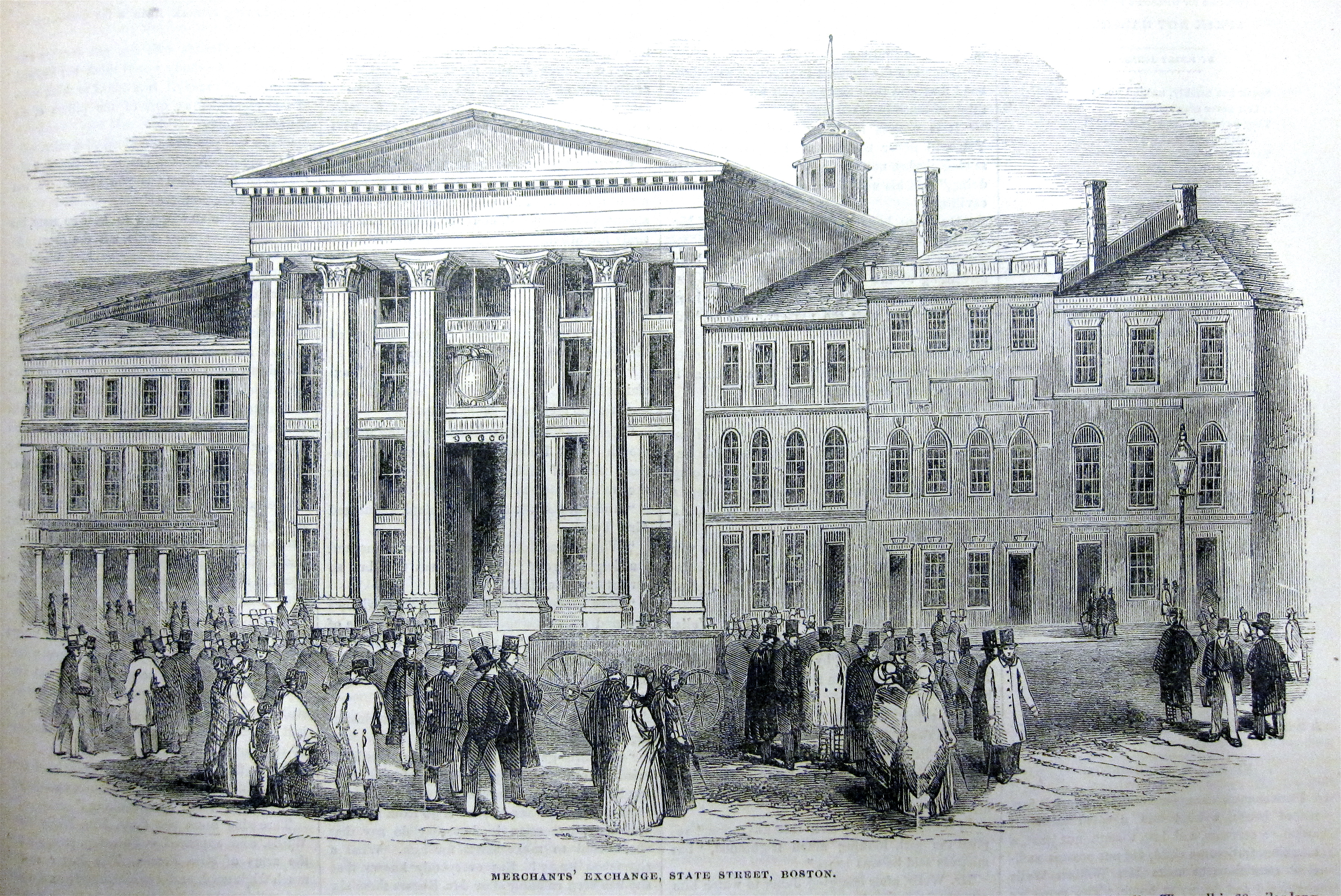 Merchant's Exchange, Boston MA, in: Gleason's Pictorial 1852